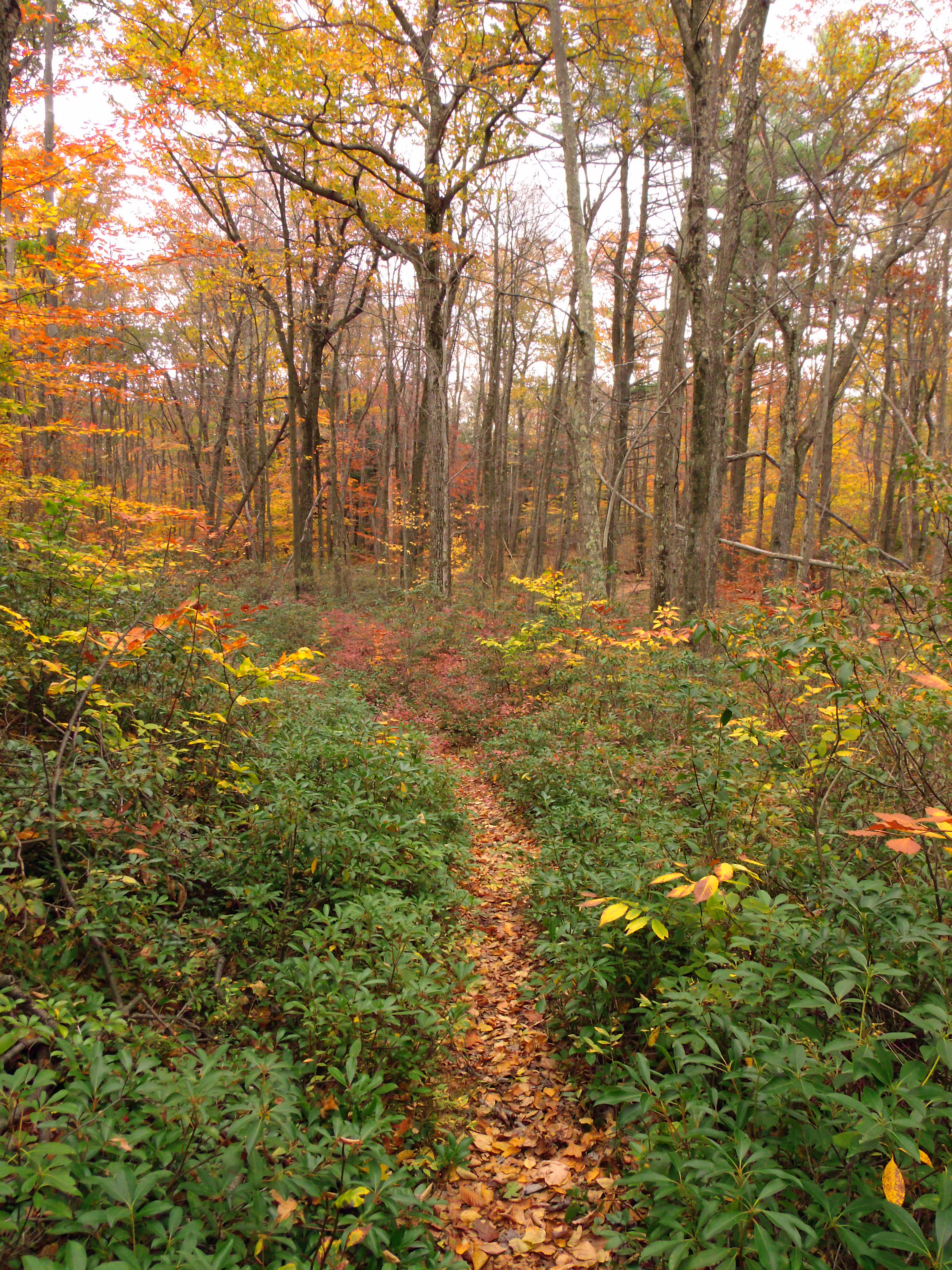 Sunday Trail, Lackawanna State Forest, Lackawanna County.